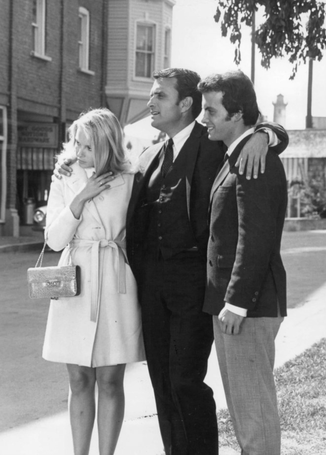 Photo of Joyce Jillson (Jill Smith), Ed Nelson (Michael Rossi) and Michael Christian (Joe Rossi) from the television program Peyton Place. The scene is from the marriage of Jill and Joe.